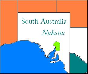 Location of Nukunu nation